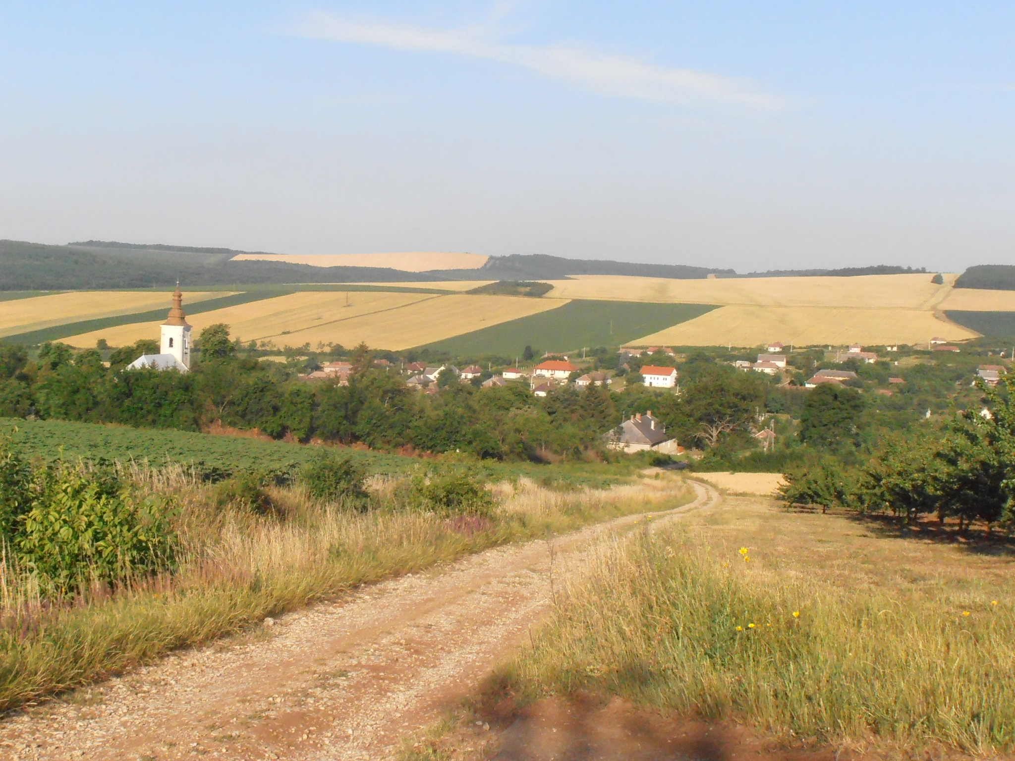 Baktakék, Hungary Baktakék a távolból